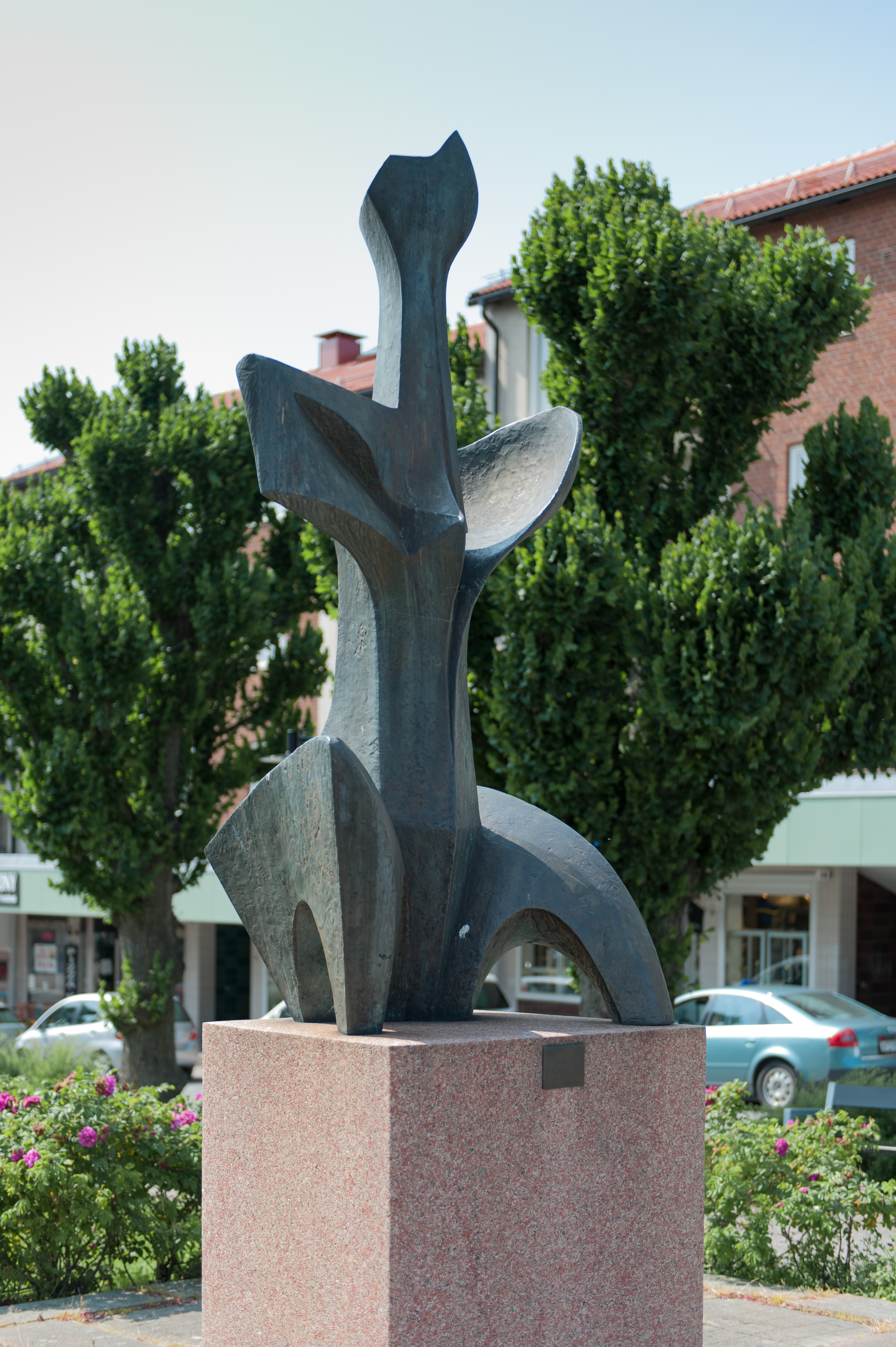 The sculpture Silvatica by Eric Grate in Nässjö